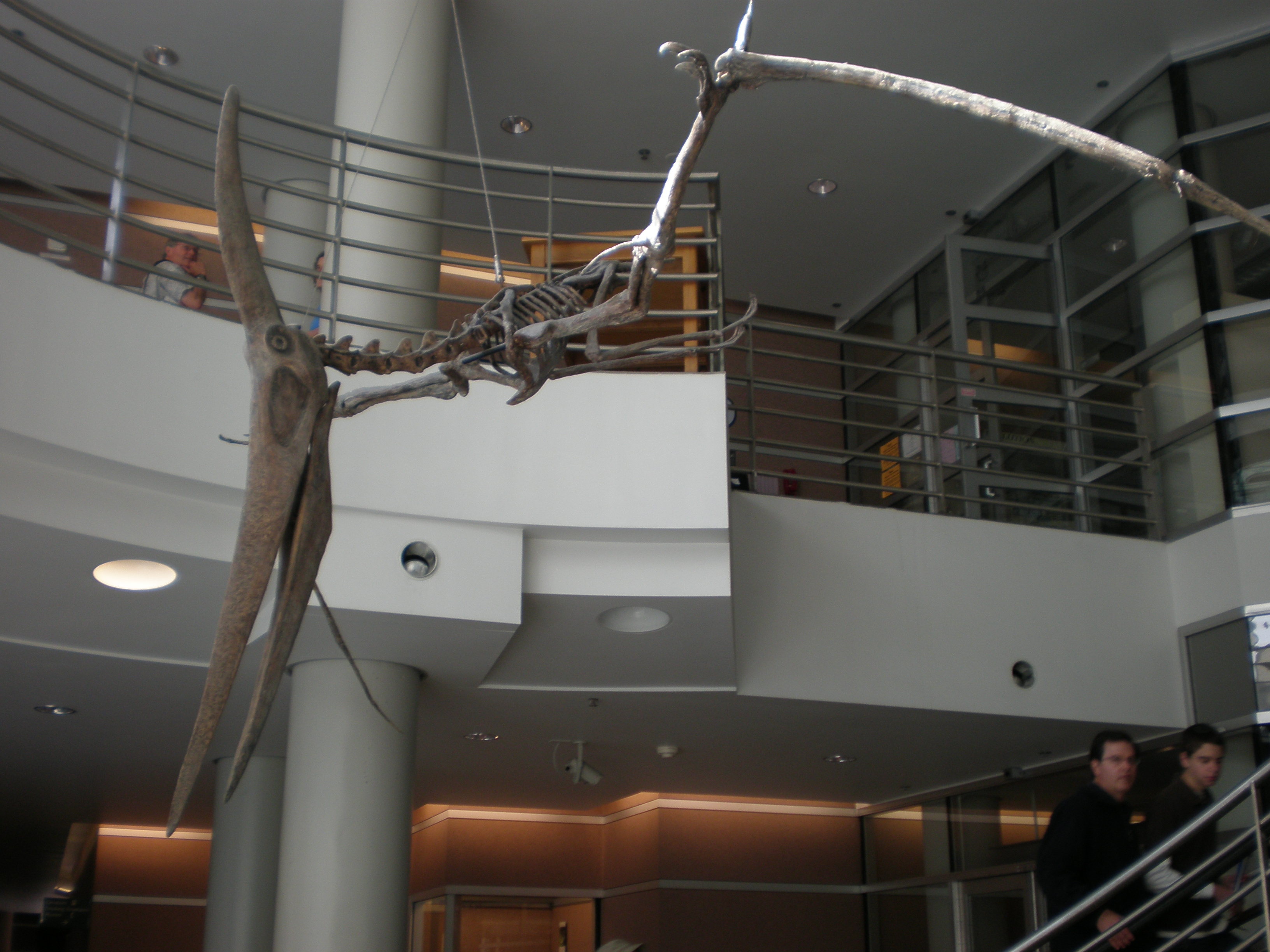 The skeleton of a Pteranodon ingens on display at the University of California Museum of Paleontology in Berkeley, California.